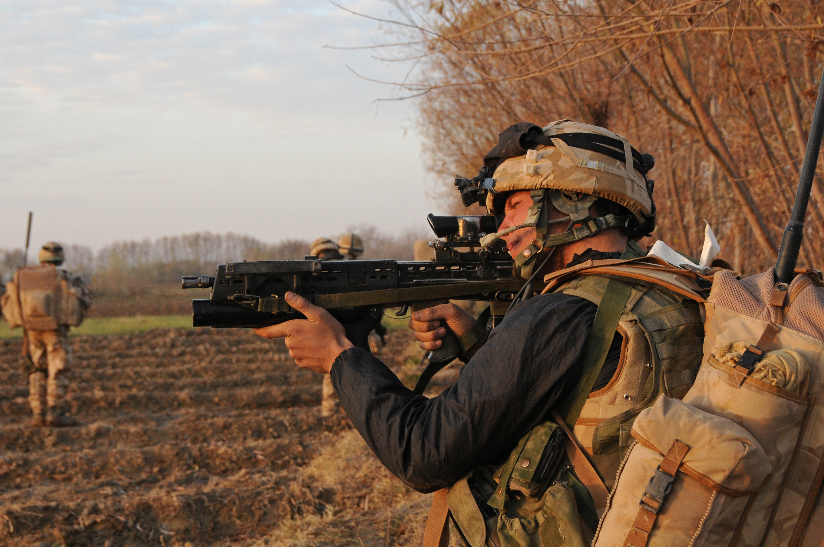 A Royal Marines Commando looks down the sights of his SA-80 Assault Rifle during Operation SOND CHARA in Helmand province[Picture: Cpl John Scott Rafoss USMC ISAF HQ]